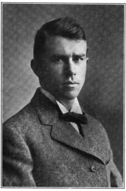 Photograph of American writer Harris Merton Lyon (1882-1916) which appeared in the March 1909 Issue of The Bookman, p. 6